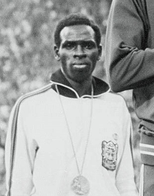 1972 Press Photo Mike Boit